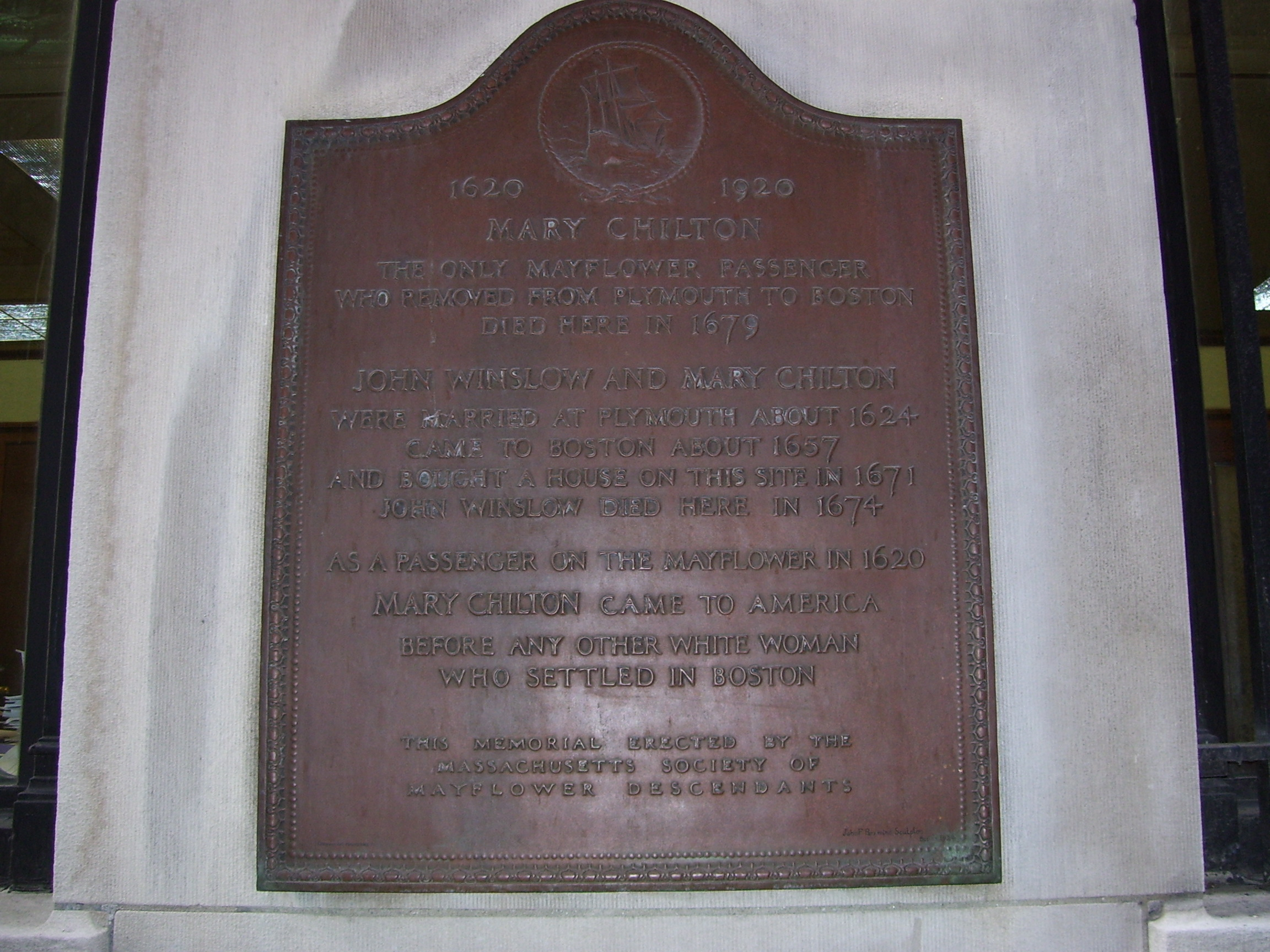 This is my photo in 2008 of the Mary Chilton and John Winslow (1597–1674) home site on Spring Lane in Boston.